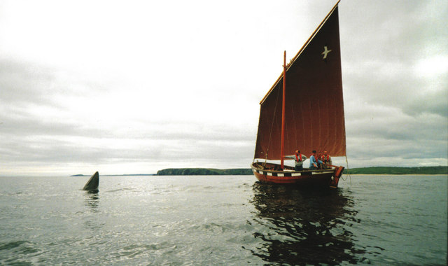 Traditional Sailing Boat and Whale The boat is called An Sulaire meaning Gannet. Just as the photo was being taken a Minke Whale poked his head out for a look